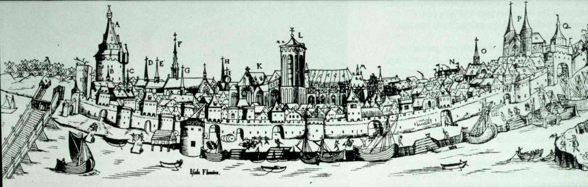 View of Deventer 1550